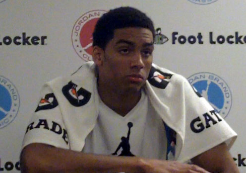 James Michael McAdoo talks to reporters following the 2011 Jordan Brand Classic basketball game in Charlotte, NC.